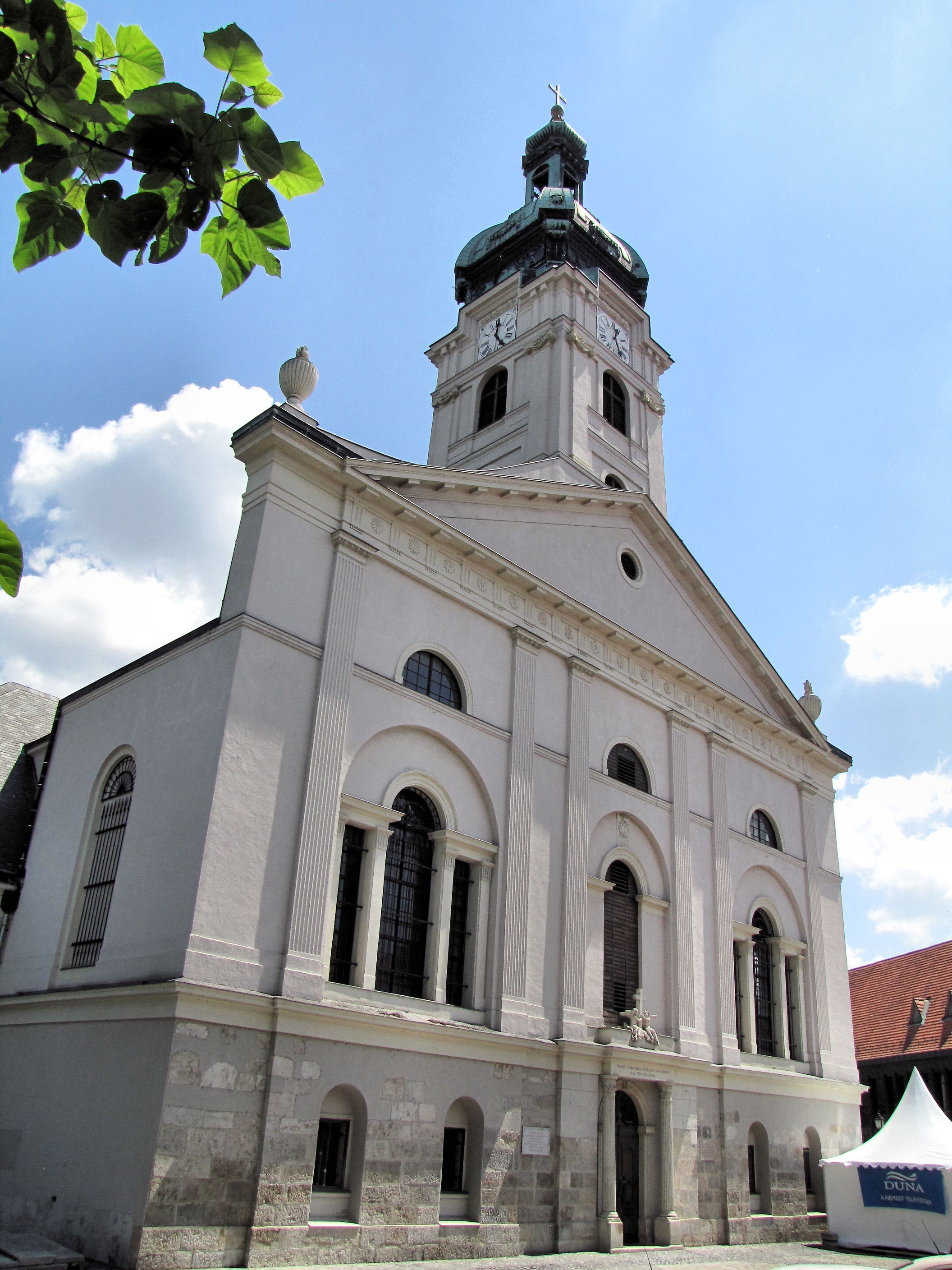 Győr, Cathedral.